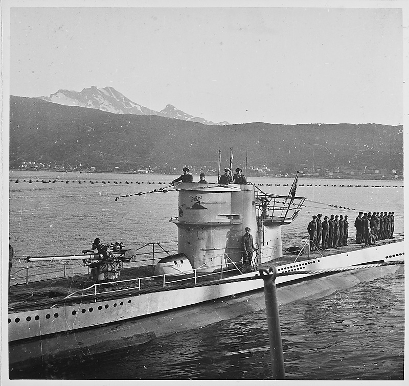 Image from "Photo Album from Terboven's journey to Nothern Norway and Finland 10–27 July 1942" (Mit dem Reichskommissar nach Nordnorwegen und Finnland 10. bis 27. Juli 1942), 375 images uploaded to www. by Riksarkivet (National Archives of Norway) 2012. See scanned album here